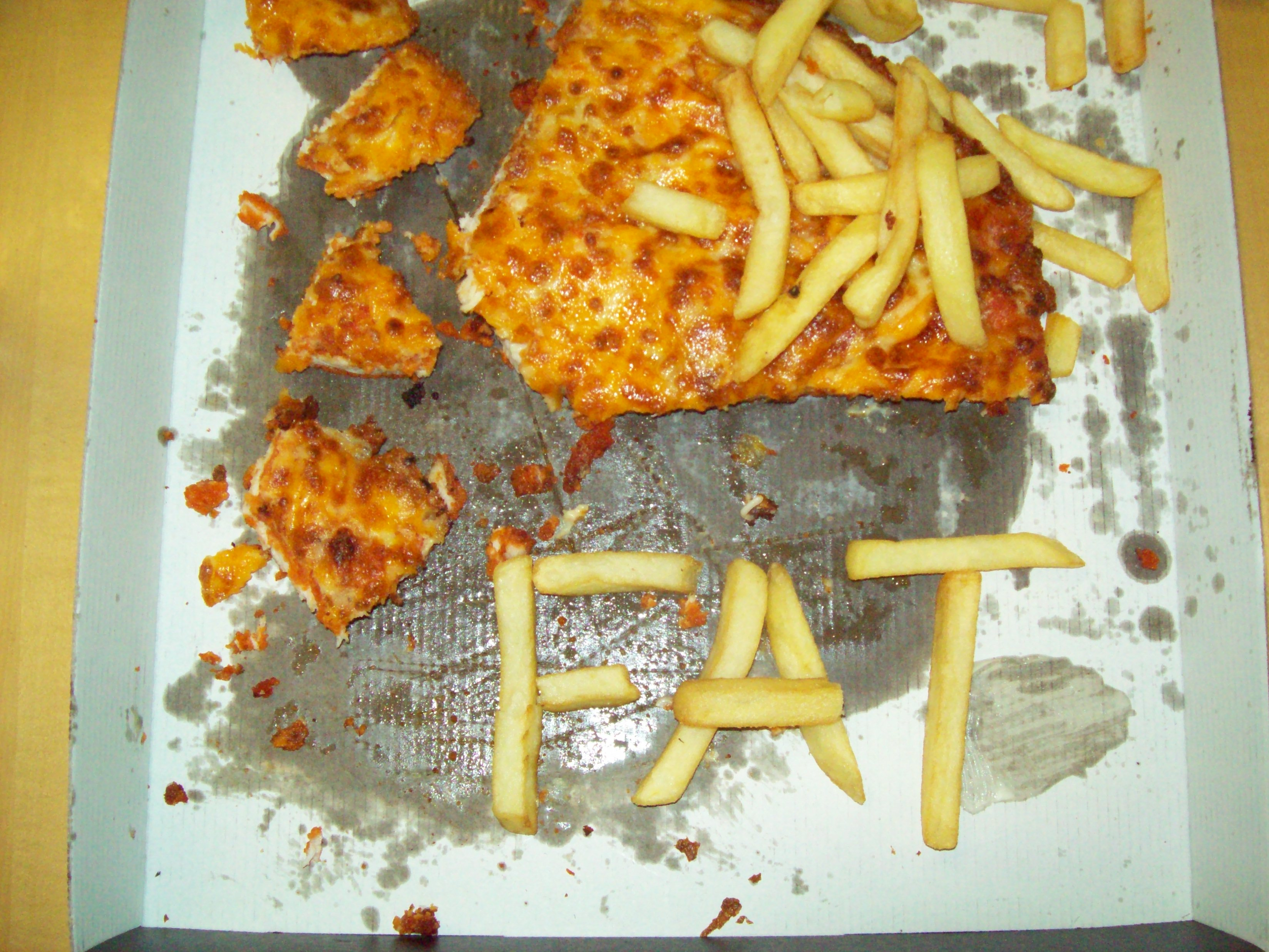 The best of M'bro: the ultimate Charlotte & Maaike Parmo experience!